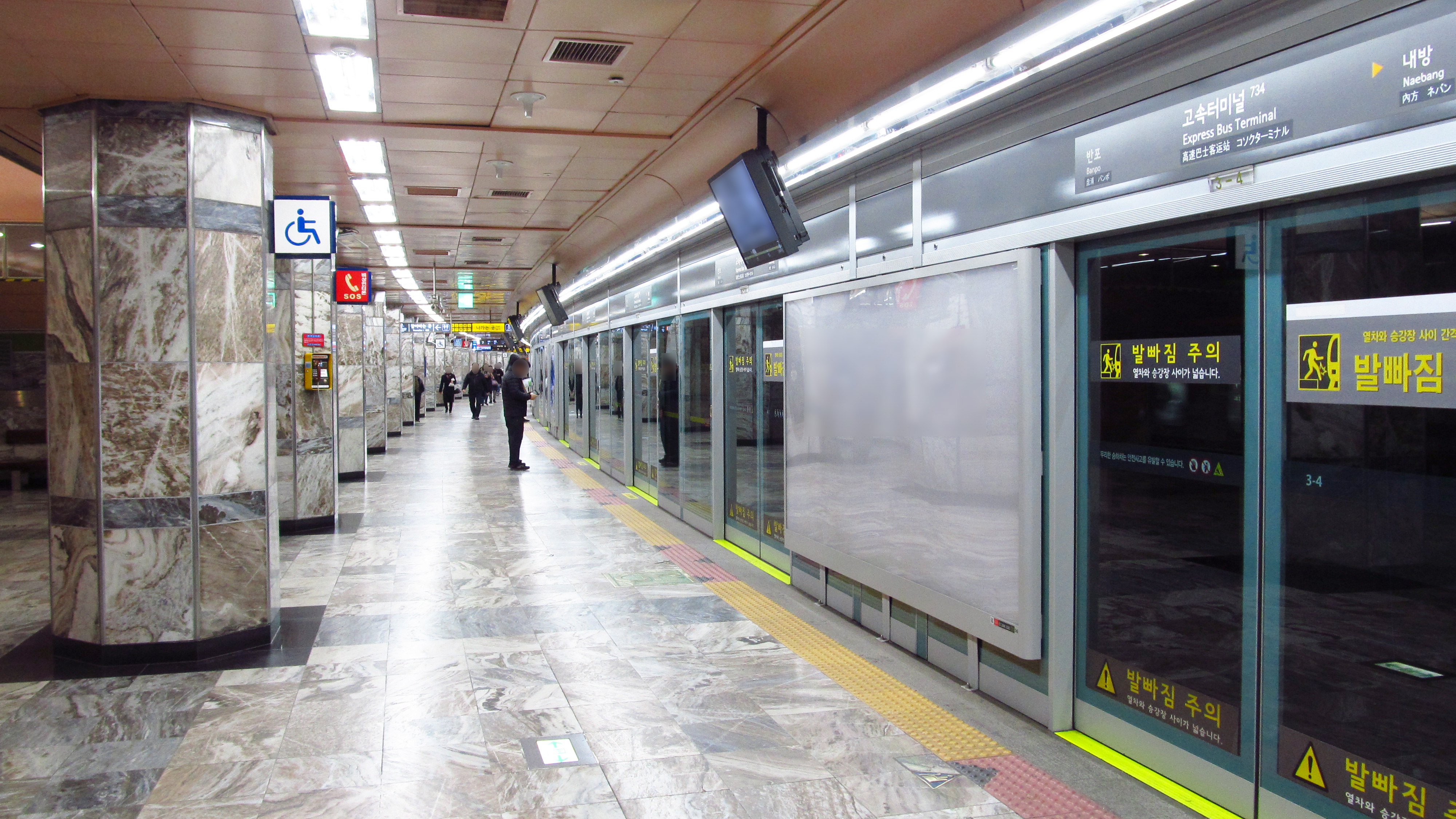 The platform at Express Bus Terminal Station on Seoul Subway Line 7 in Seocho-gu, Seoul, Republic of Korea(South Korea)